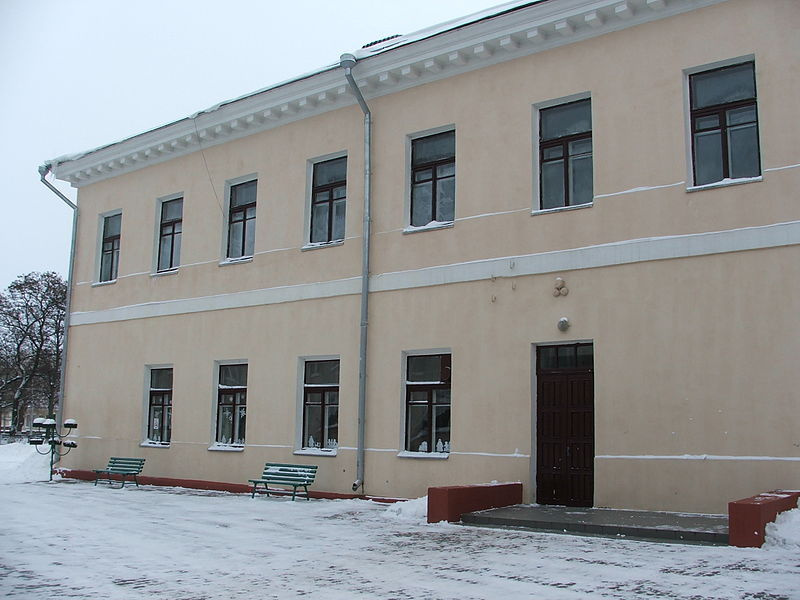 Slutsk Gymnasium